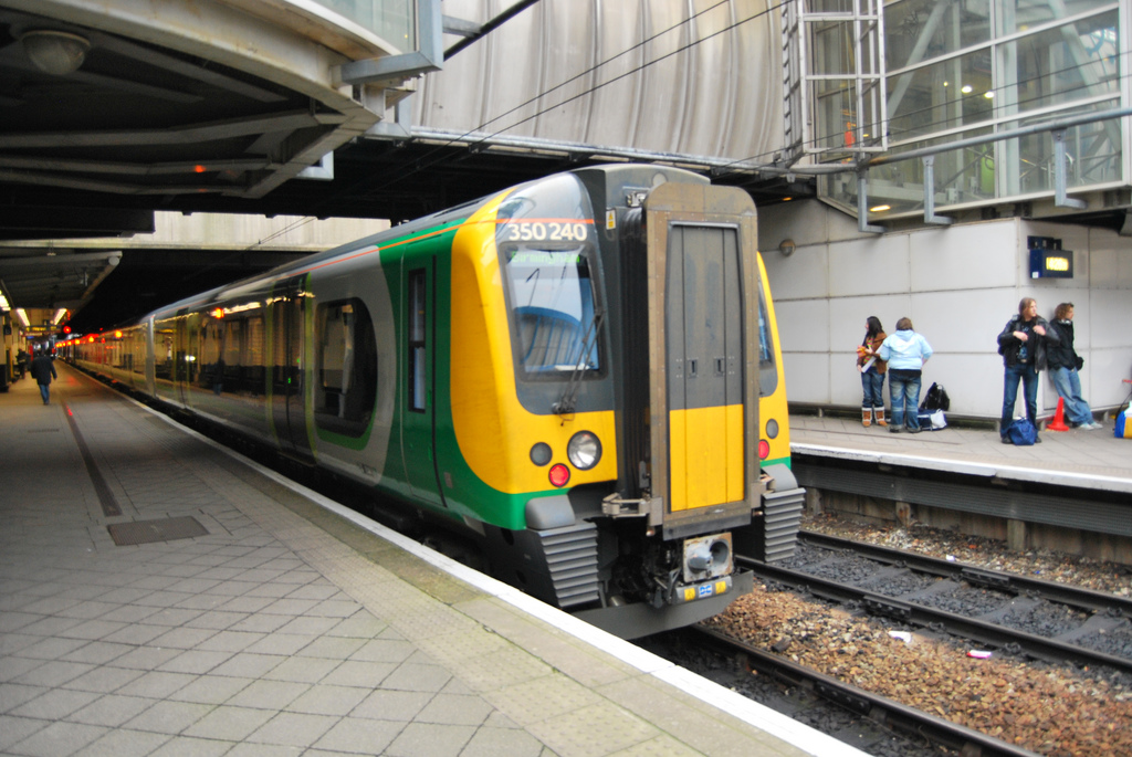 New London Midland Class 350/2 stands at Birmingham New Street with an unidentified classmate, having just arrived from London Euston on London Midland's new hourly West Coast Main Line service, on the 22nd December 2008.